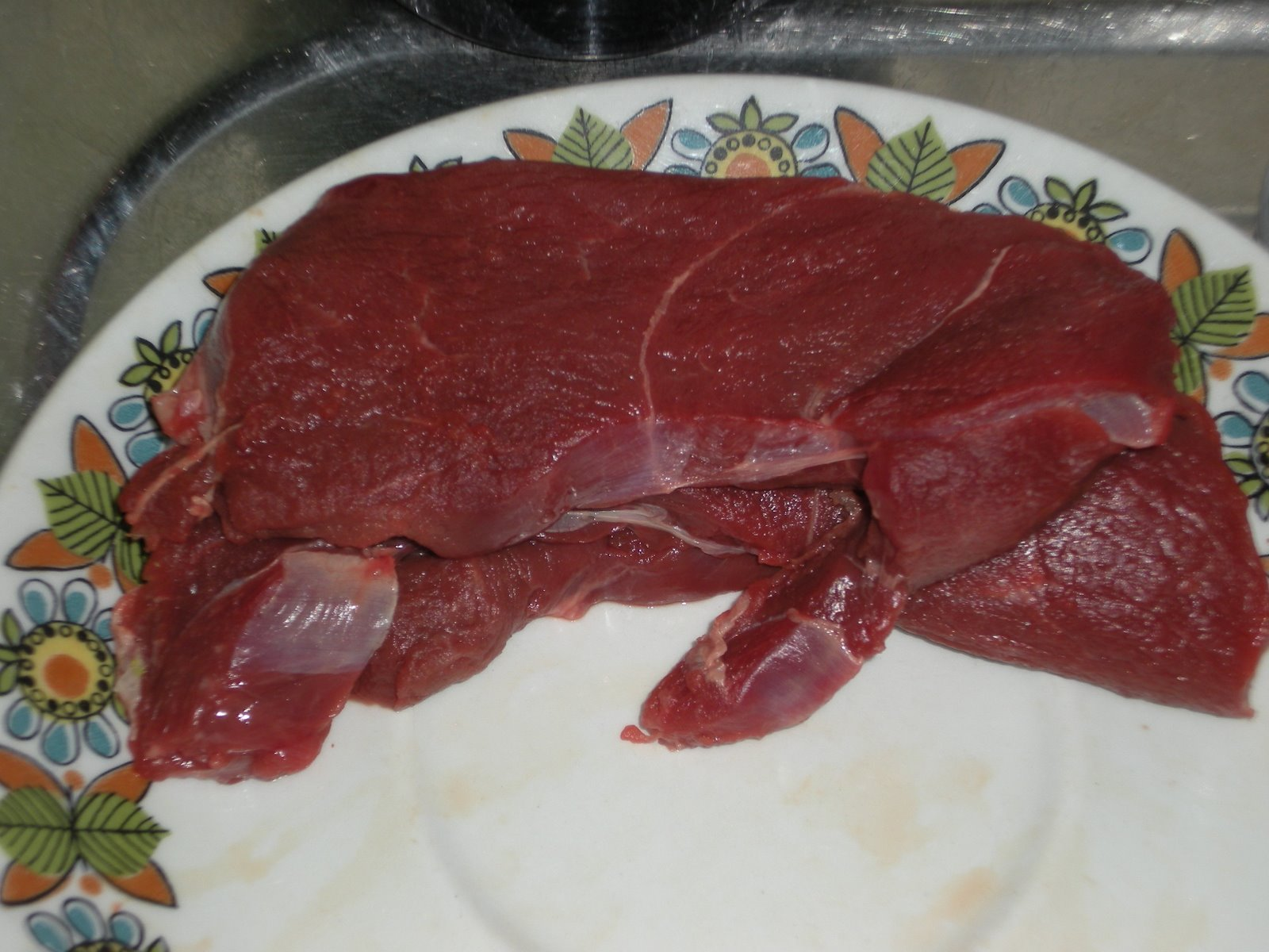 Venison from Seasonal Swiss Hunt